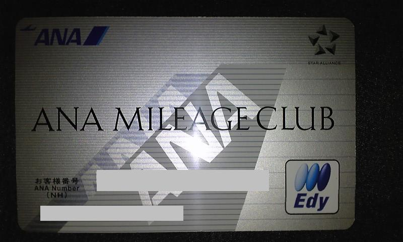 This is a picture of "mileage card of ANA MILEAGE CLUB". This picture taken by cellphone.